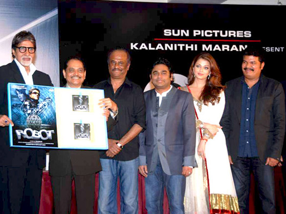 Audio launch of Enthiran